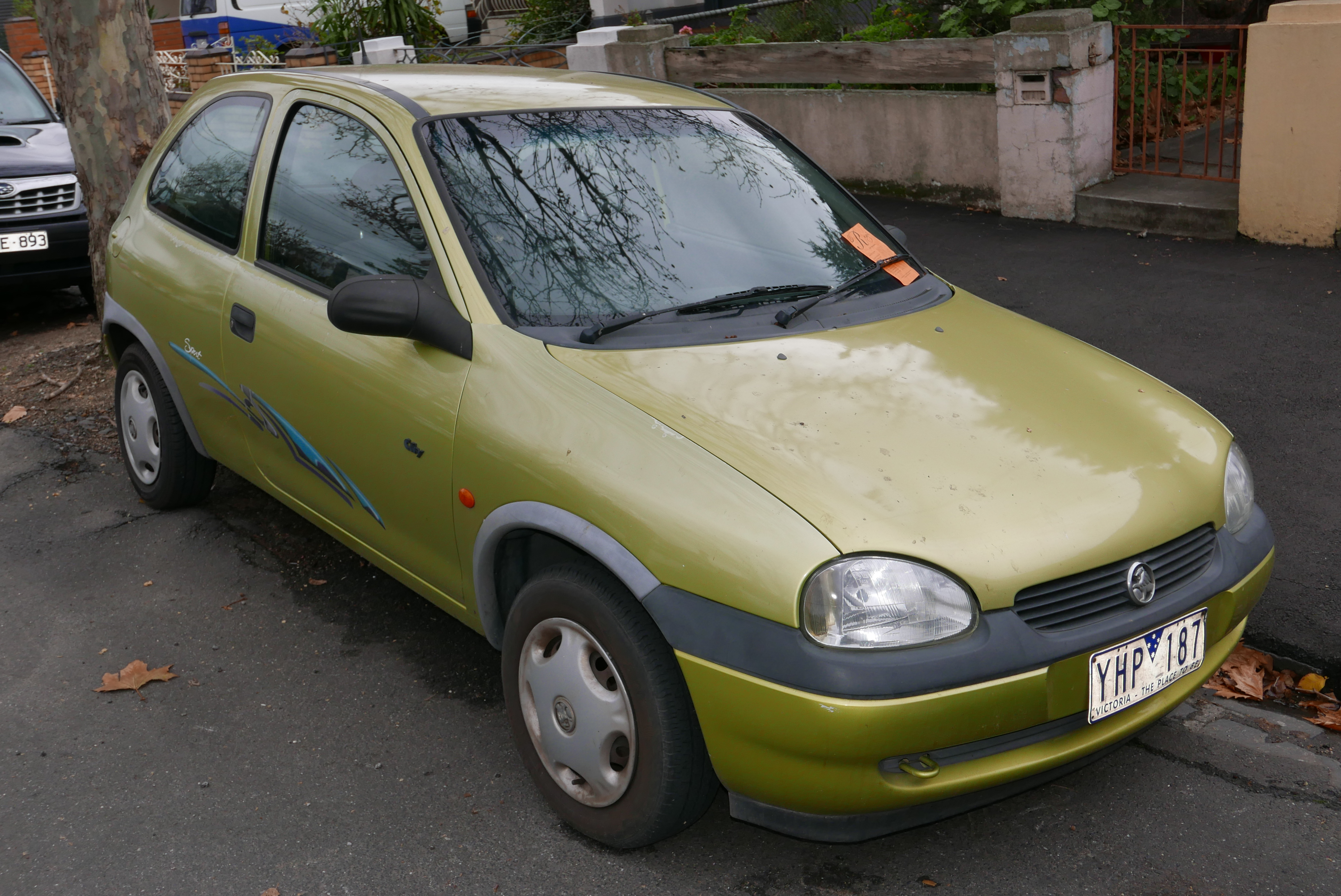 1999 Holden Barina (SB) City 3-door hatchback. Photographed in Fitzroy North, Victoria, Australia. Vehicle registration enquiry results Jurisdiction Victoria Registration YHP187 Chassis code W0L0SBF08X4148738 Engine code C14SE02JJ4383 Compliance date 1999-02 Year of manufacture 1999